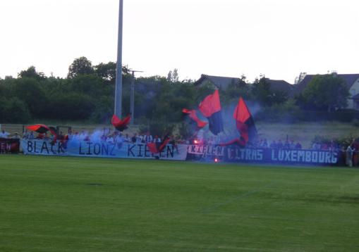 Barragematch FC Kehlen - CSO